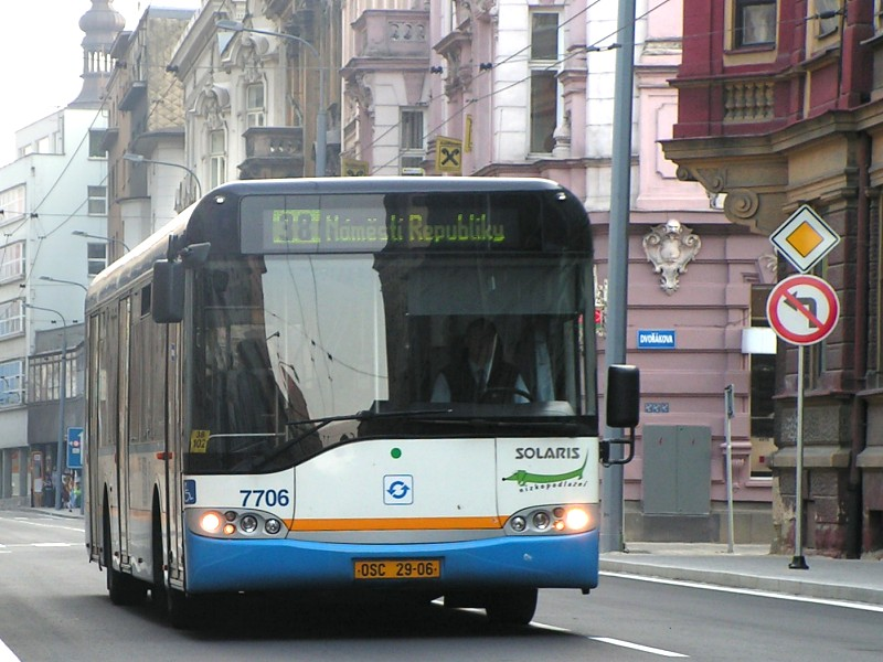 Solaris Urbino 12 bus (#7706) in Ostrava, Czech Republic. Built 2002, DP Ostrava operator.